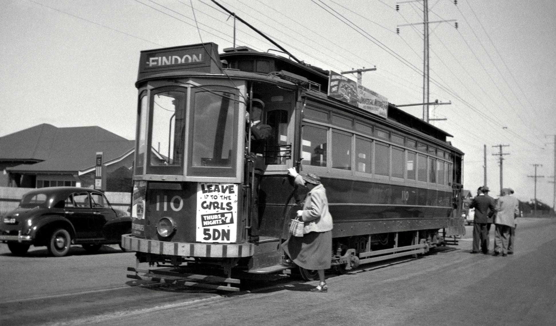 A 1911-vintage Municipal Tramways Trust Type E1 tram no. 110 at the terminus at Findon (Adelaide, South Australia), on Grange Road near Crittenden Road, on the last day of tram operation on the line, 18 October 1953. The woman boarding demonstrates the height of the steps that had to be negotiated on these trams.